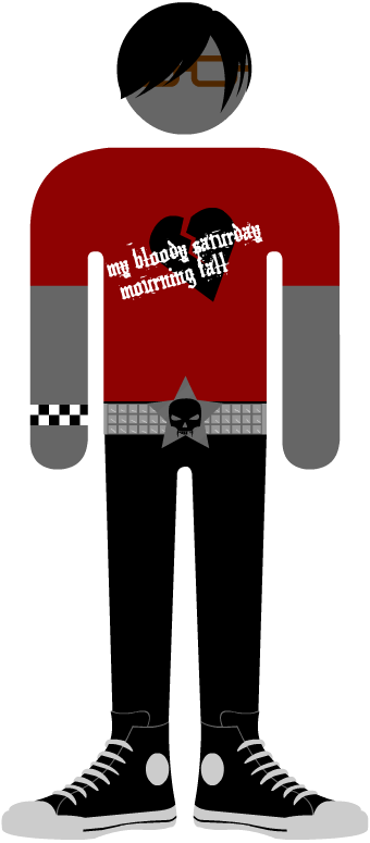 Picture of a stereotypical "emo ", using all the fashion elements described in Emo (slang) at the time of creation.